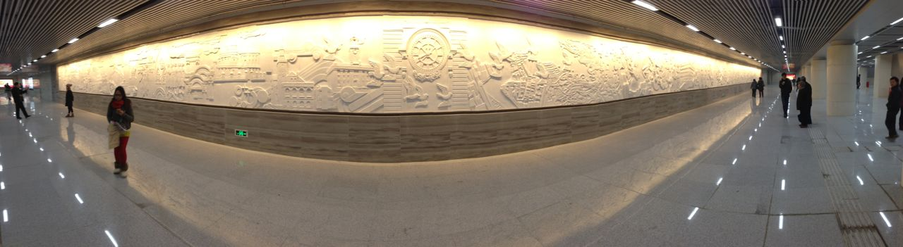 Jianghan Road Station